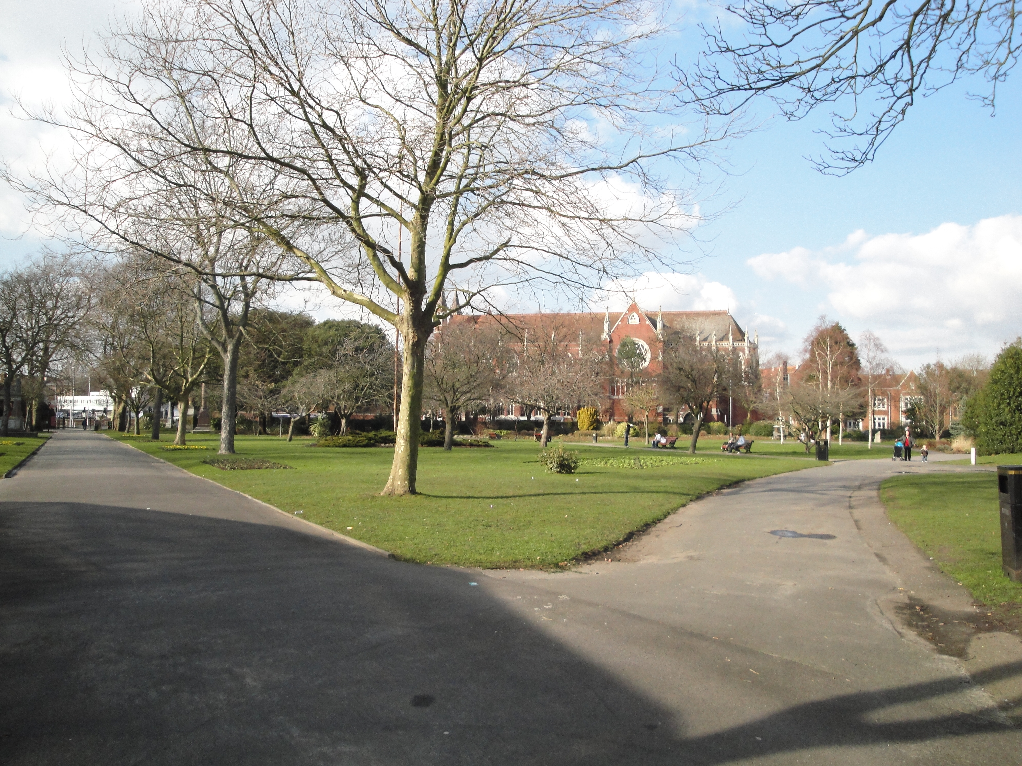 The centre of Victoria Park located close to the centre near the guildhall in Portsmouth, Hampshire.